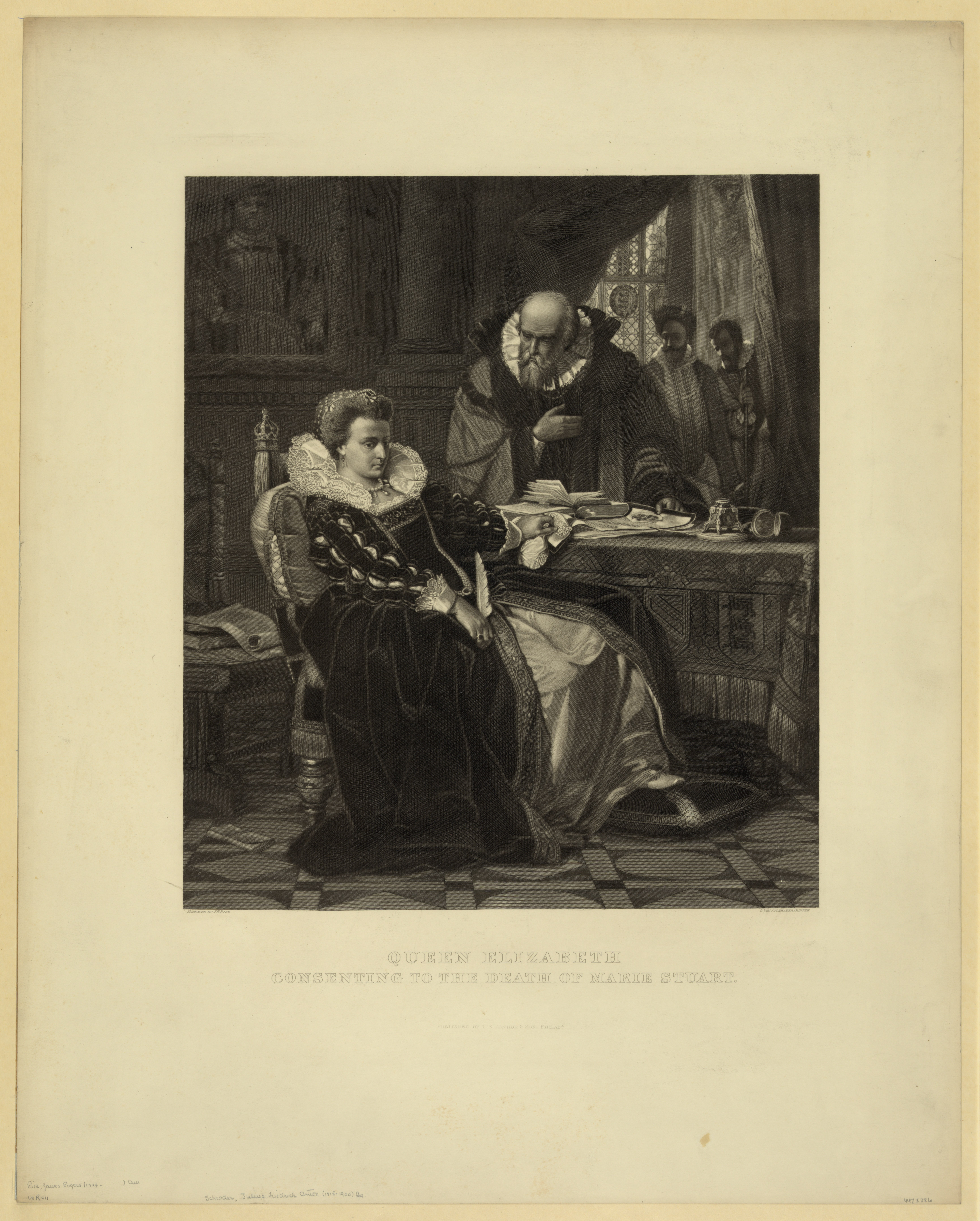 Title: Queen Elizabeth, consenting to the death of Marie Stuart Physical description: 1 print. Notes: This record contains unverified data from PGA shelflist card.; Associated name on shelflist card: Rice, James Rogers.